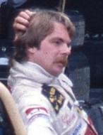 Keke Rosberg with his Wolf WR7 at Imola in 1979.